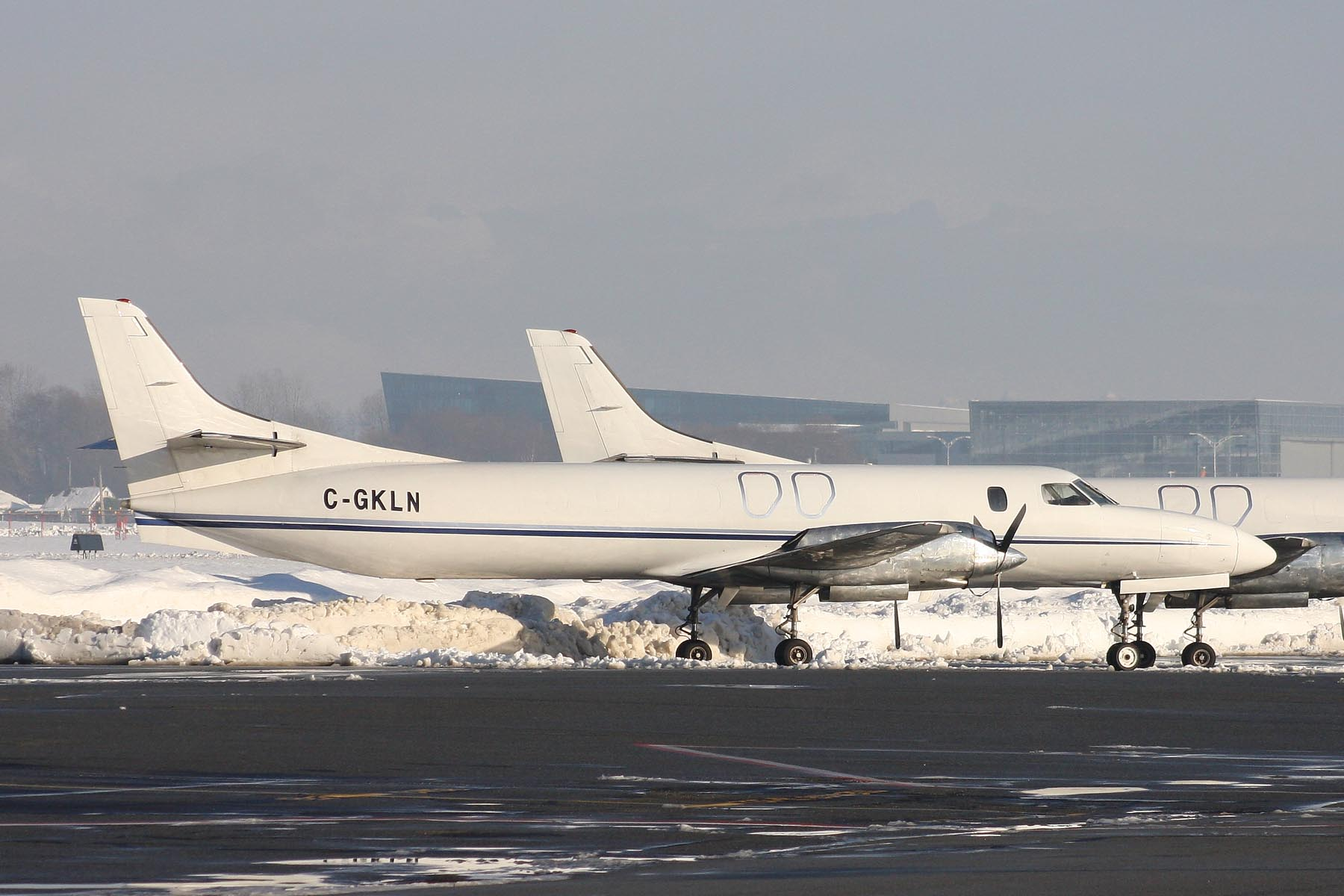 Lots of snow!